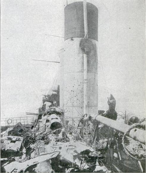 Damage to the Oryol after the Battle of Tsushima.